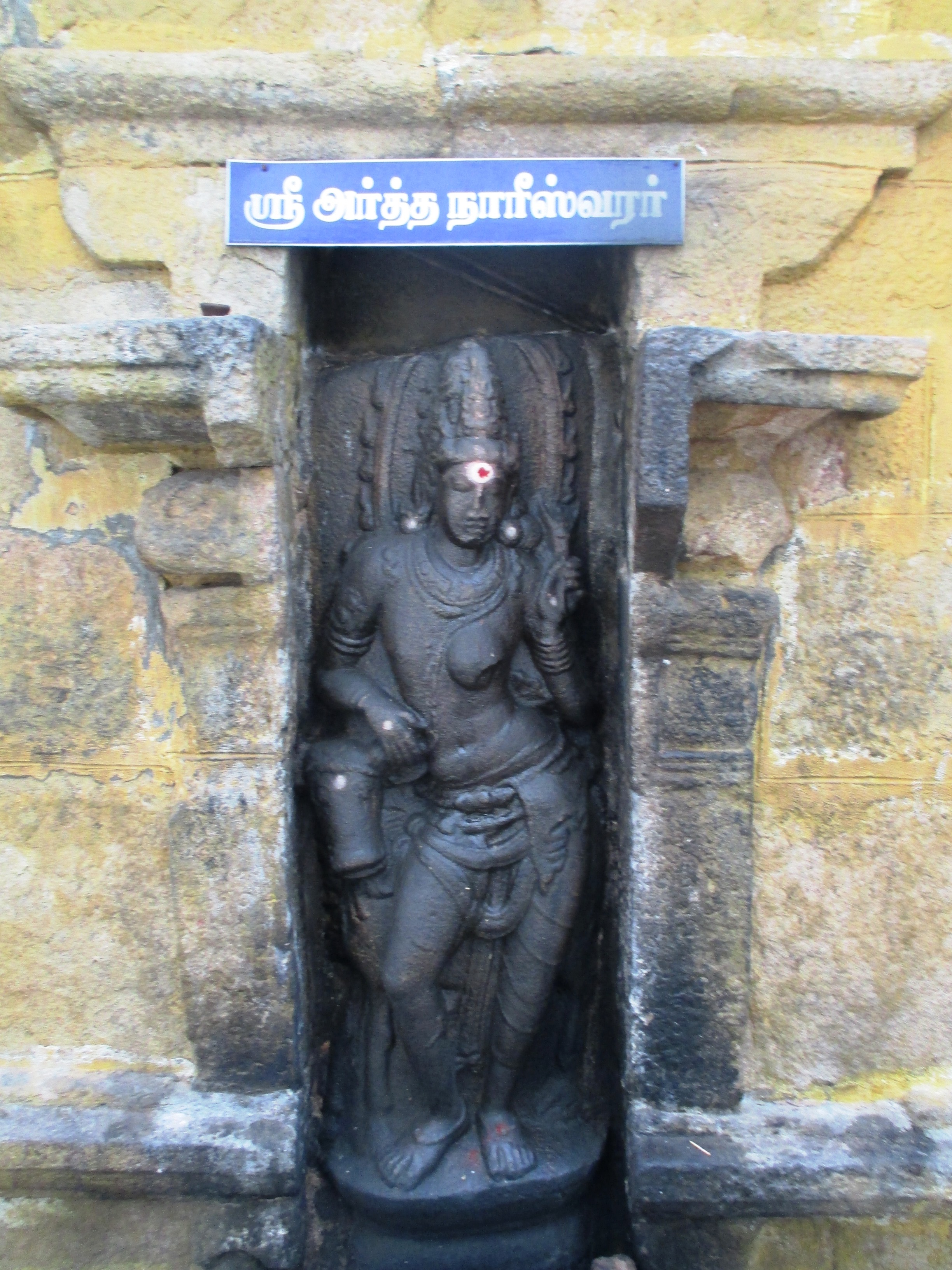 Thanthodreeswarar Temple, Woraiyur